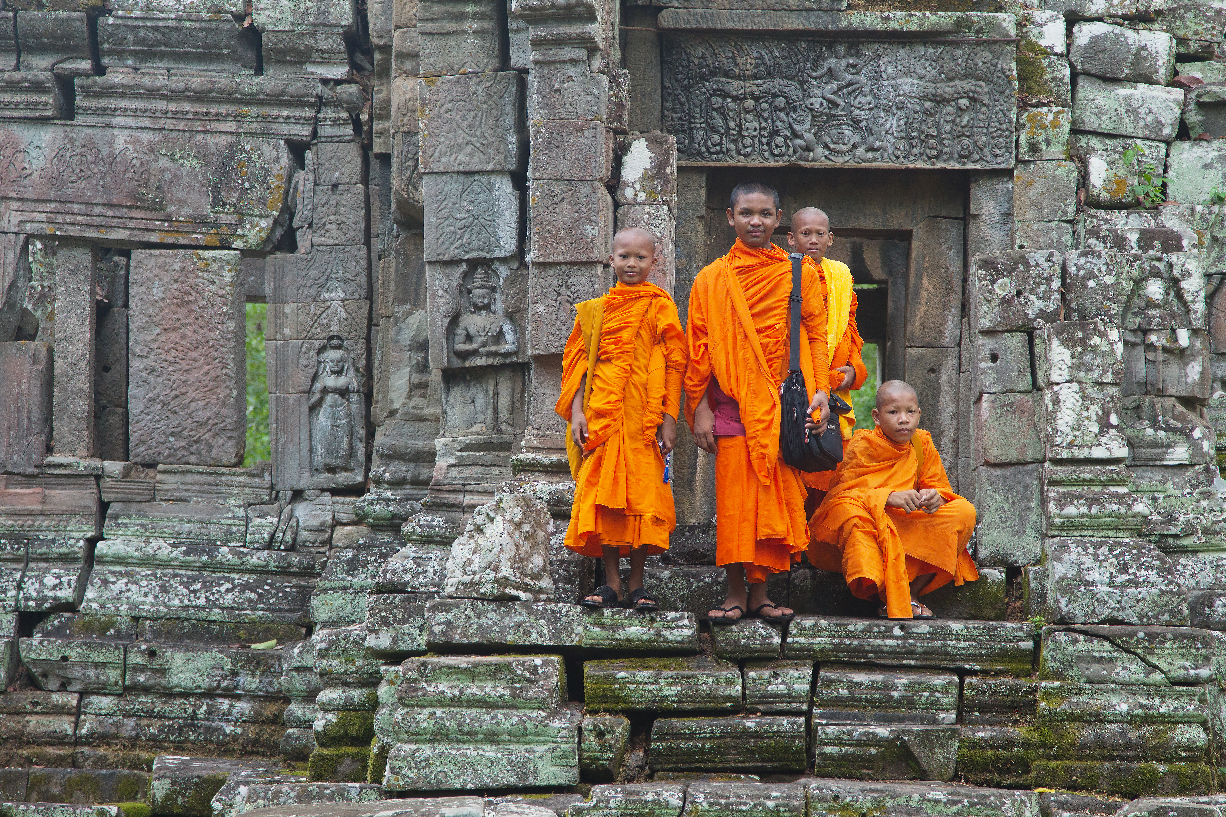 A group of monks at Preah Pithu U, Angkor, Siem Reap, Cambodia